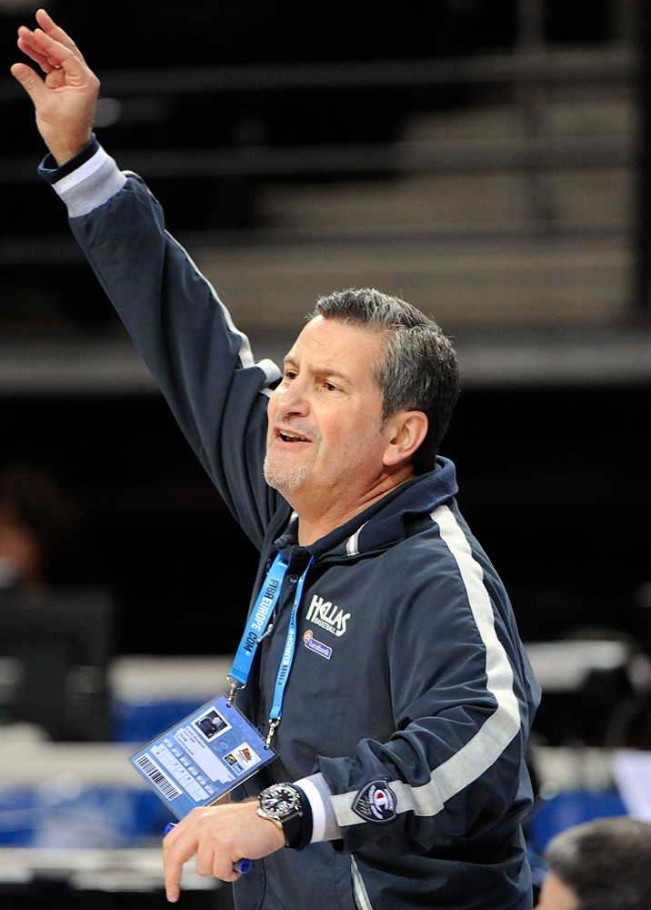 Head coach of Greece national basketball team Ilias Zouros during EuroBasket 2011